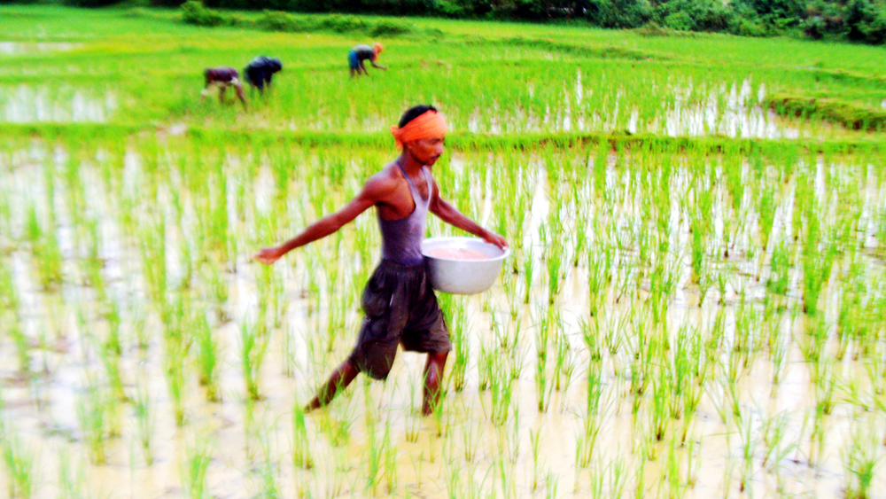 Paddy sowing in Chaudwar, Kataka ( Cuttack), Odisha, India